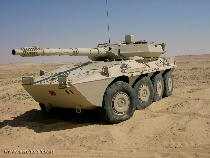 Centauro Tank; Italian Army. Downloaded from the official homepage of the Italian Army.